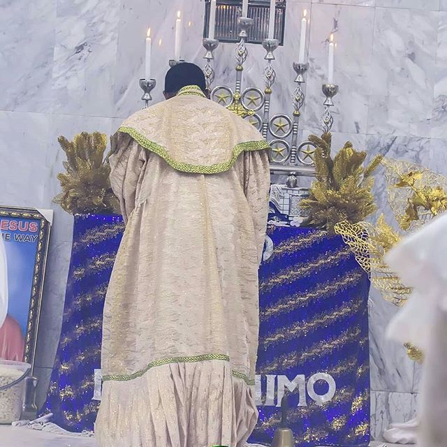 2018: Rev. Oshoffa leading over 100,000 pilgrims at the annual Christmas Eve service of the Celestial Church in Celestial Holy City, Imeko.